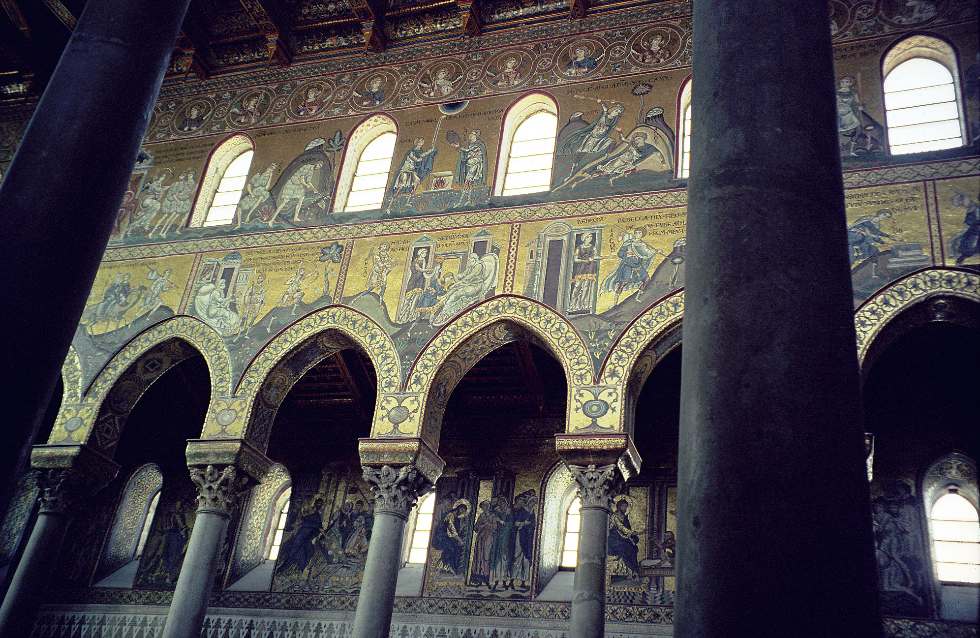 Sicily, The Cathedral Monreale, religious images from the nave, ca 1200 CE